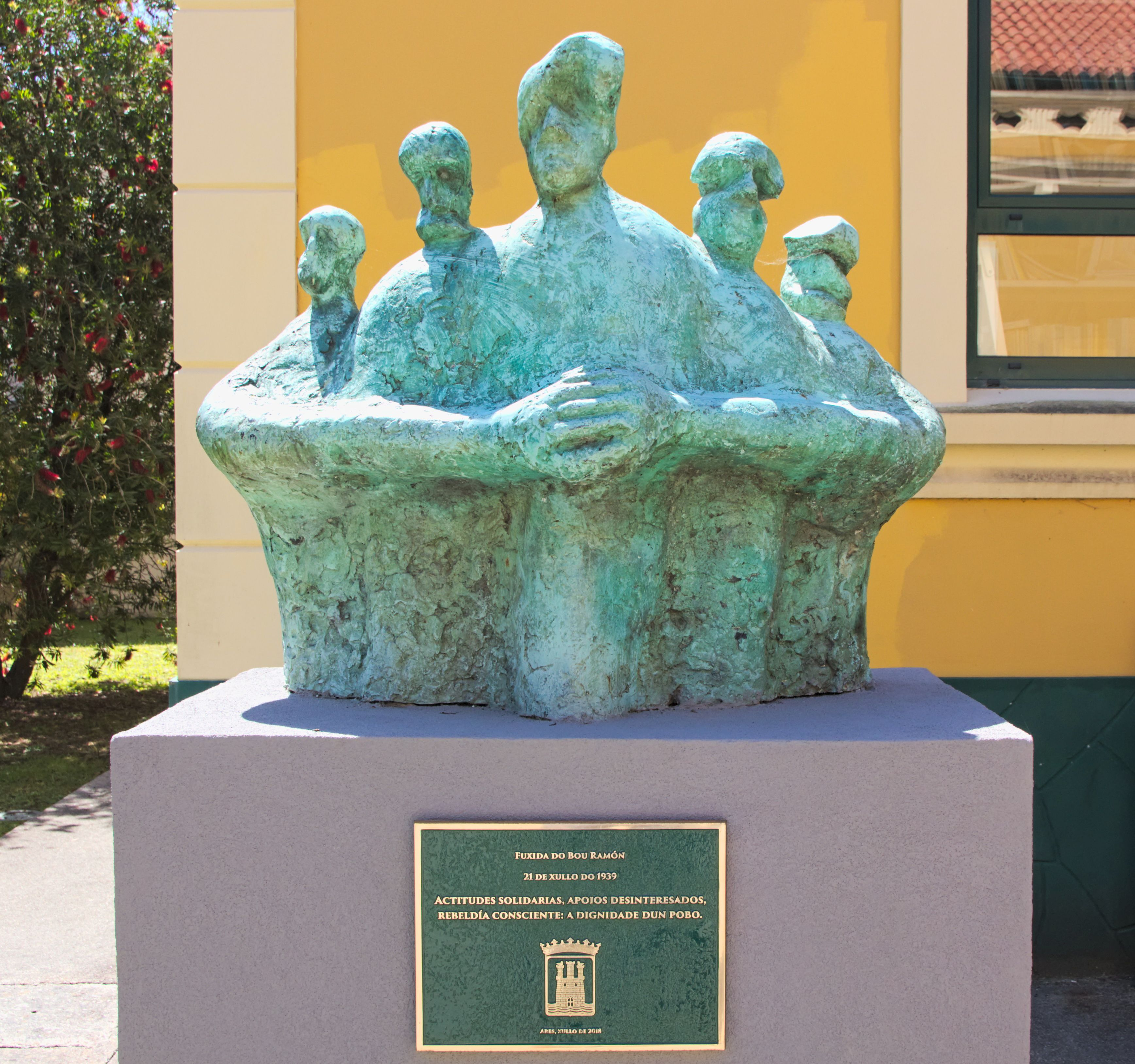 Sculpture "Fuxida do bou Ramon" ("Escape of the bou Ramón"), in Ares (Galicia, Spain), made by Miguel Couto Coutelo.